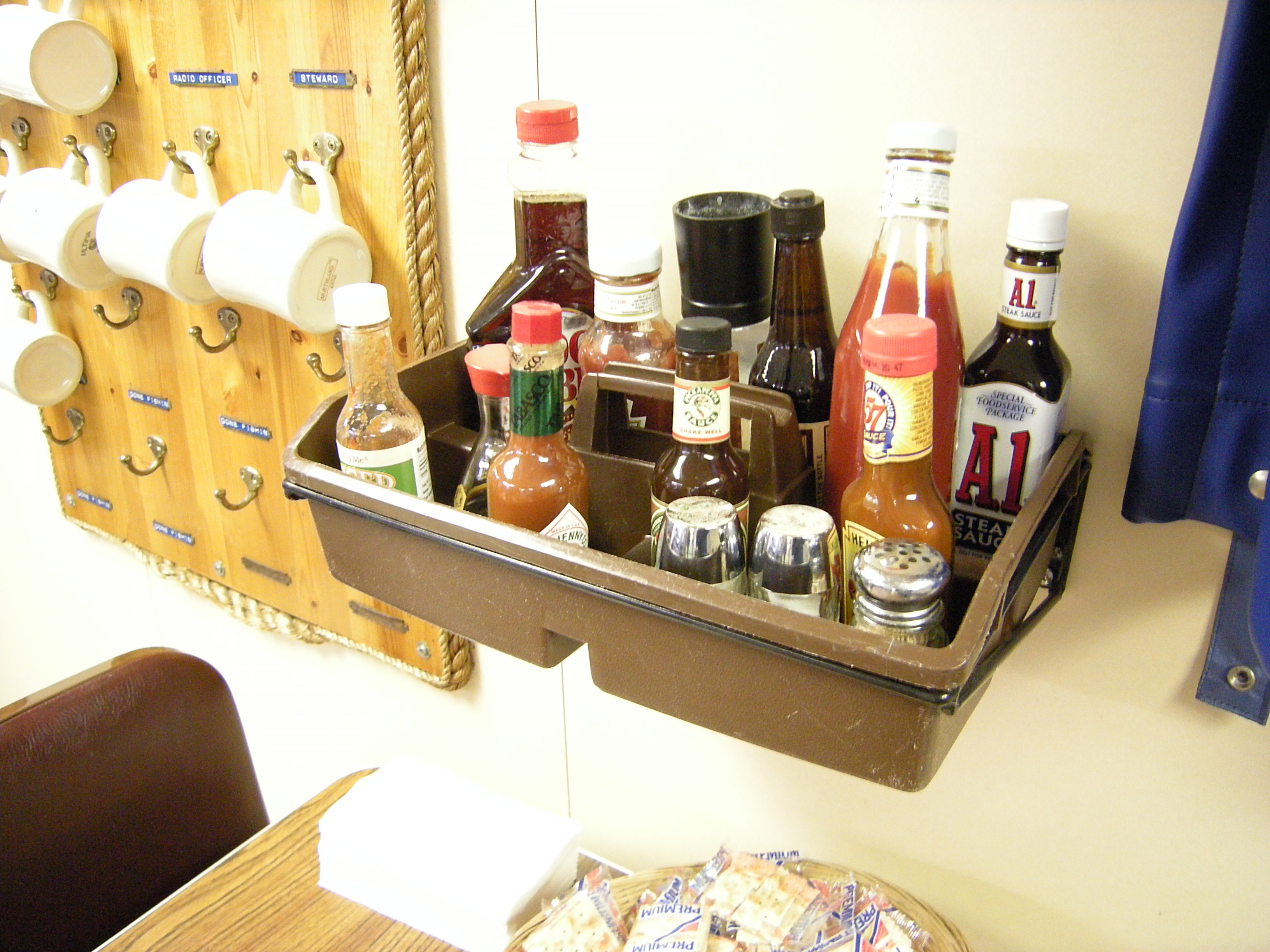 Condiments in the mess of the research vessel RV Thomas G. Thompson, photographed at its dock at the University of Washington, Seattle, Washington, USA.